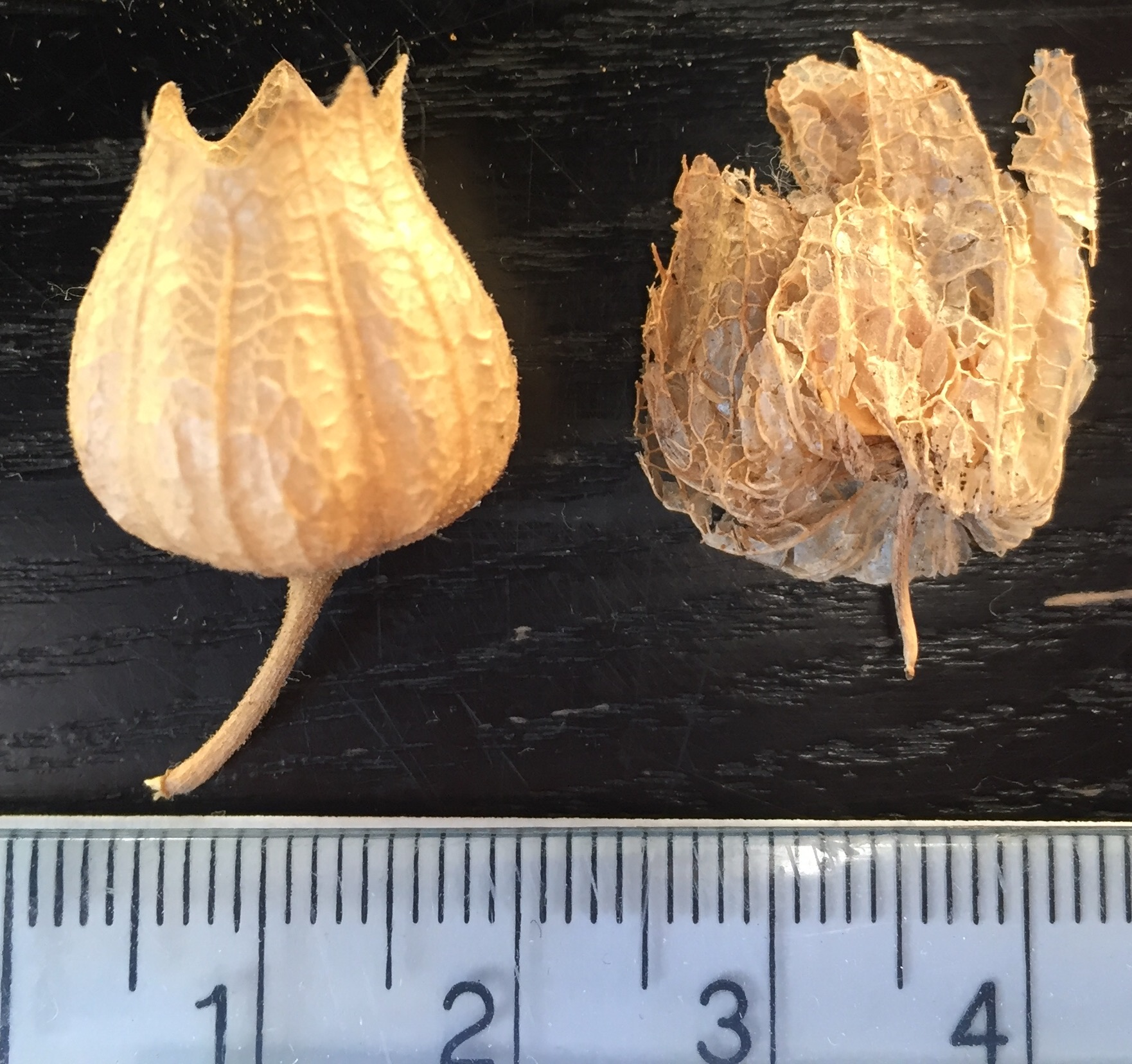 An image illustrating the most obvious difference between the West and Central Asian Physochlaina orientalis (M. Bieb.) G.Don and the Central to East Asian / Siberian Physochlaina physaloides (L.) G.Don : the ripe fruiting calyx of P. orientalis ( on the Left ) is quite rigid, with calyx lobes quite sharp - resembling a squat, pyriform version of the fruiting calyx of the related genus Hyoscyamus; while the ripe fruiting calyx of P. physaloides (on the Right), by contrast is more inflated and flexible, having a softer, papery or membranaceous texture reminiscent of the fruiting calyces of the familiar genus Physalis - whence the specific name 'physaloides' ( 'Physalis-like' ). This point of difference is also reflected in the Russian common names of the plants, that of P. orientalis being simply Puzeernitsa (= 'Bubblewort' / 'Bladder plant' ), while that of P. physaloides is Puzeernitsa Phizalisovaya (= 'Physalis-like Bubblewort').